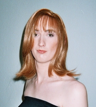 This is another pic of the same makeover, different wig of course. Gordon uses this pic as a marketing tool, he puts it in amongst the female makeovers, then surprises them at the end with a before pic of me, he said no one ever guesses! :)